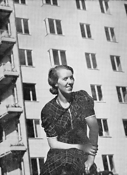 Swedish architect Hillevi Svedberg (1910—1990)